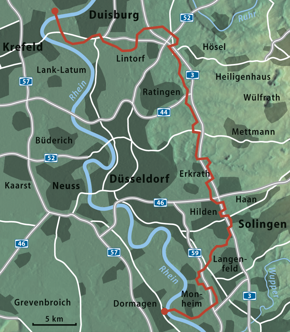 CO pipeline of Bayer AG